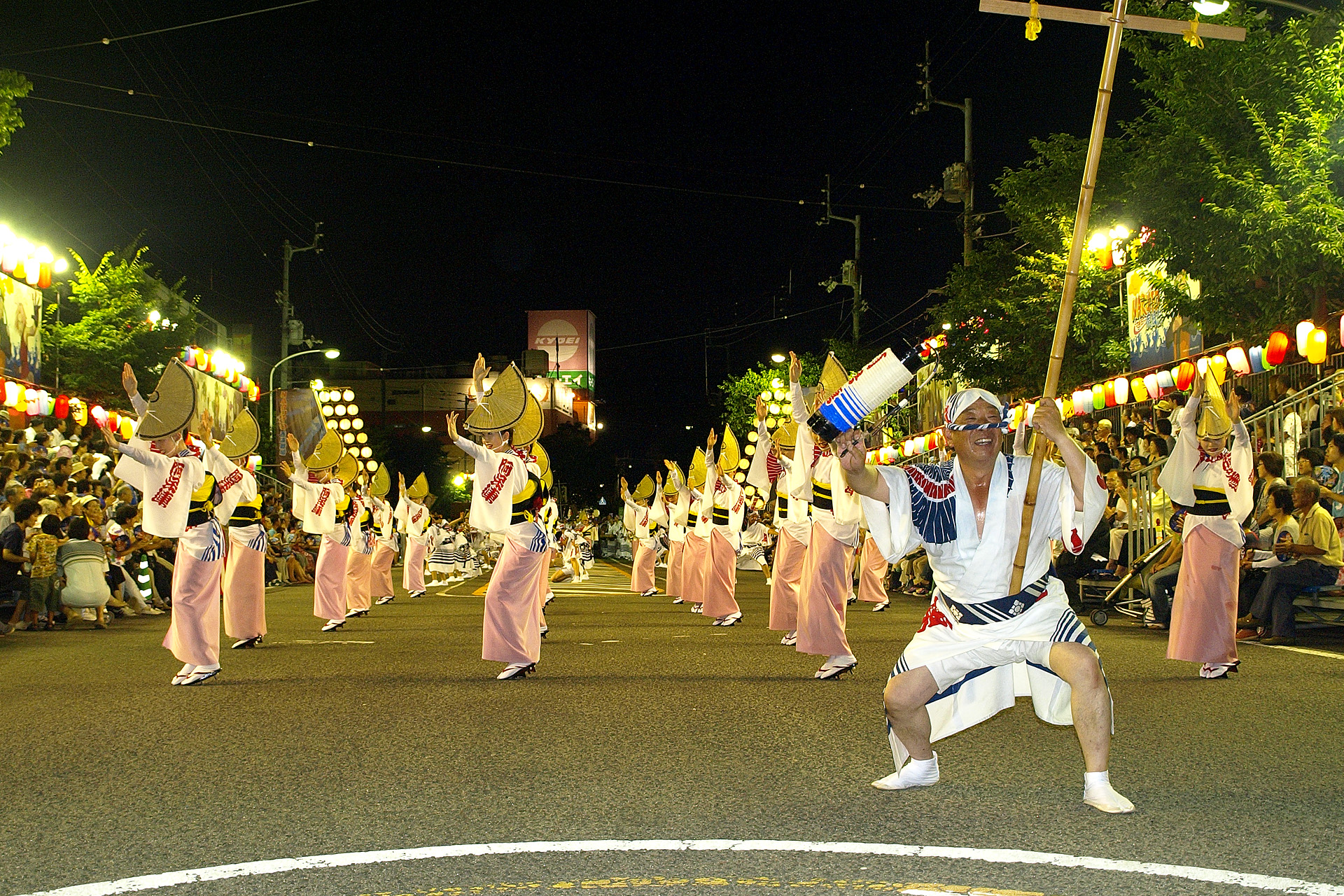 Awa-odori (a folk dance festival in Japan) near Naruto railway station in Naruto City, Tokushima, Japan